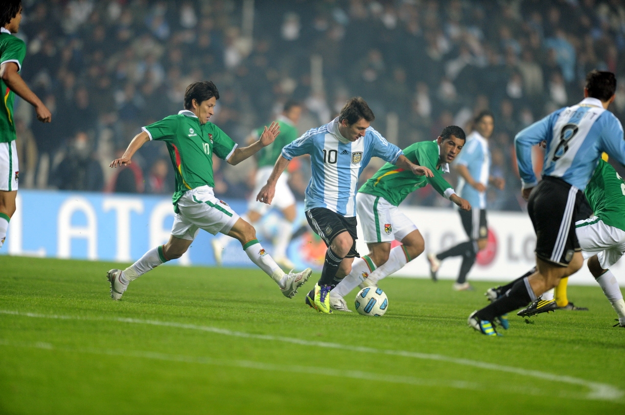 Messi with the ball during the first game of the 2011 Copa America.